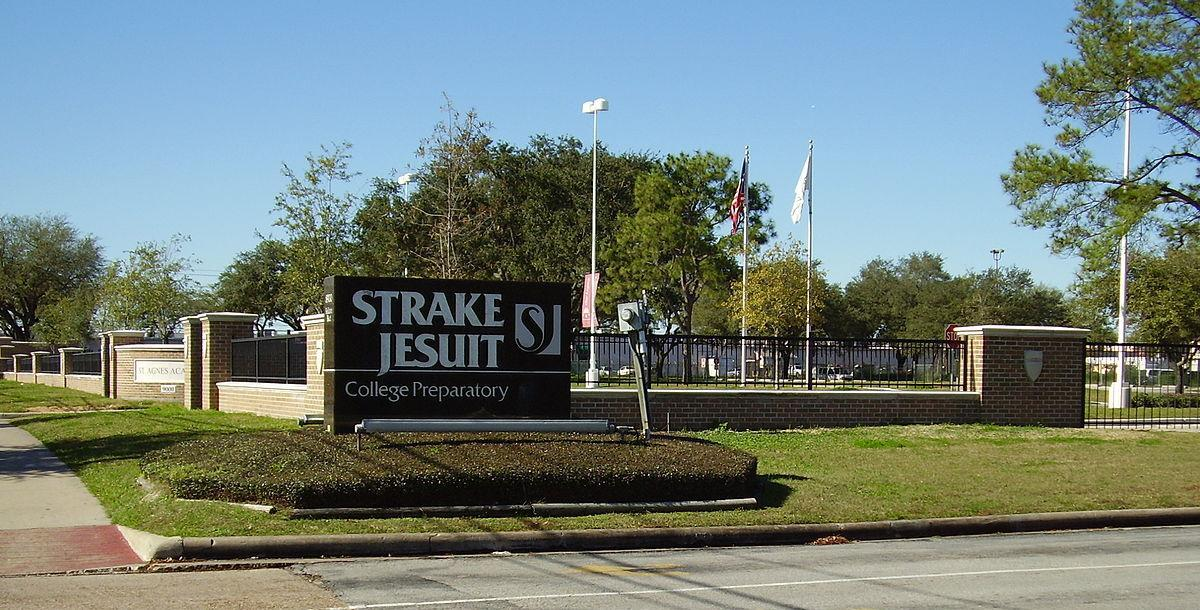 Strake Jesuit High School, Houston, entrance